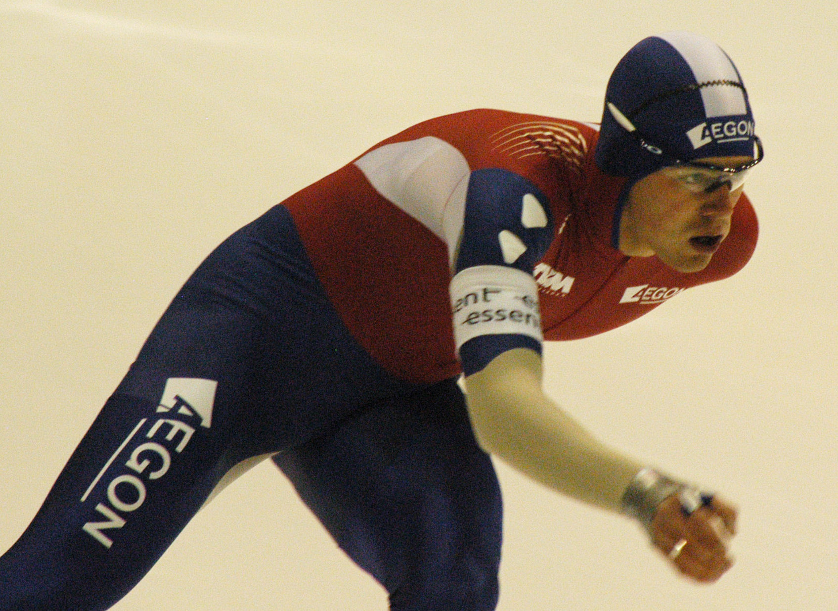 Wouter Olde Heuvel (NED) in action at a world cup speedskating in Heerenveen, the Netherlands.